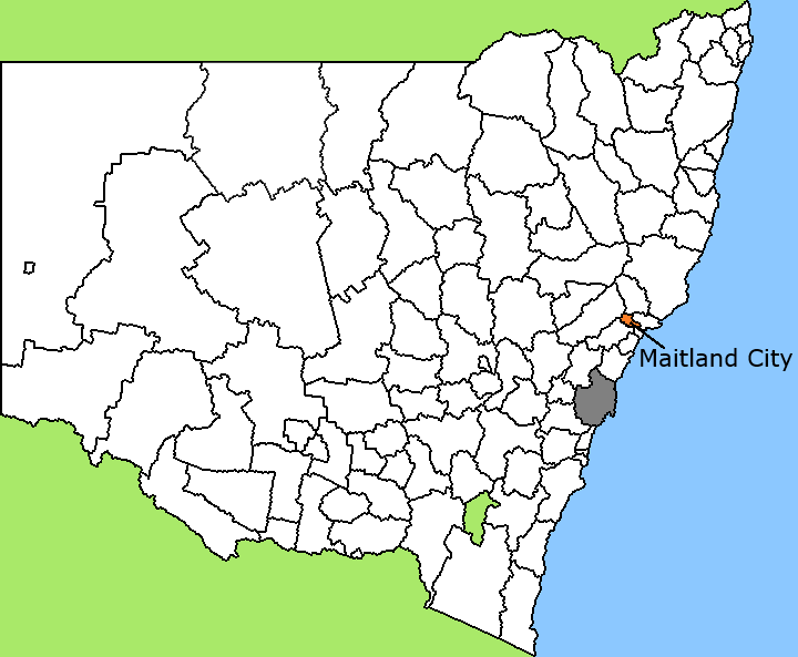 Map of New South Wales/Australia, LGA of the City of Maitland highlighted